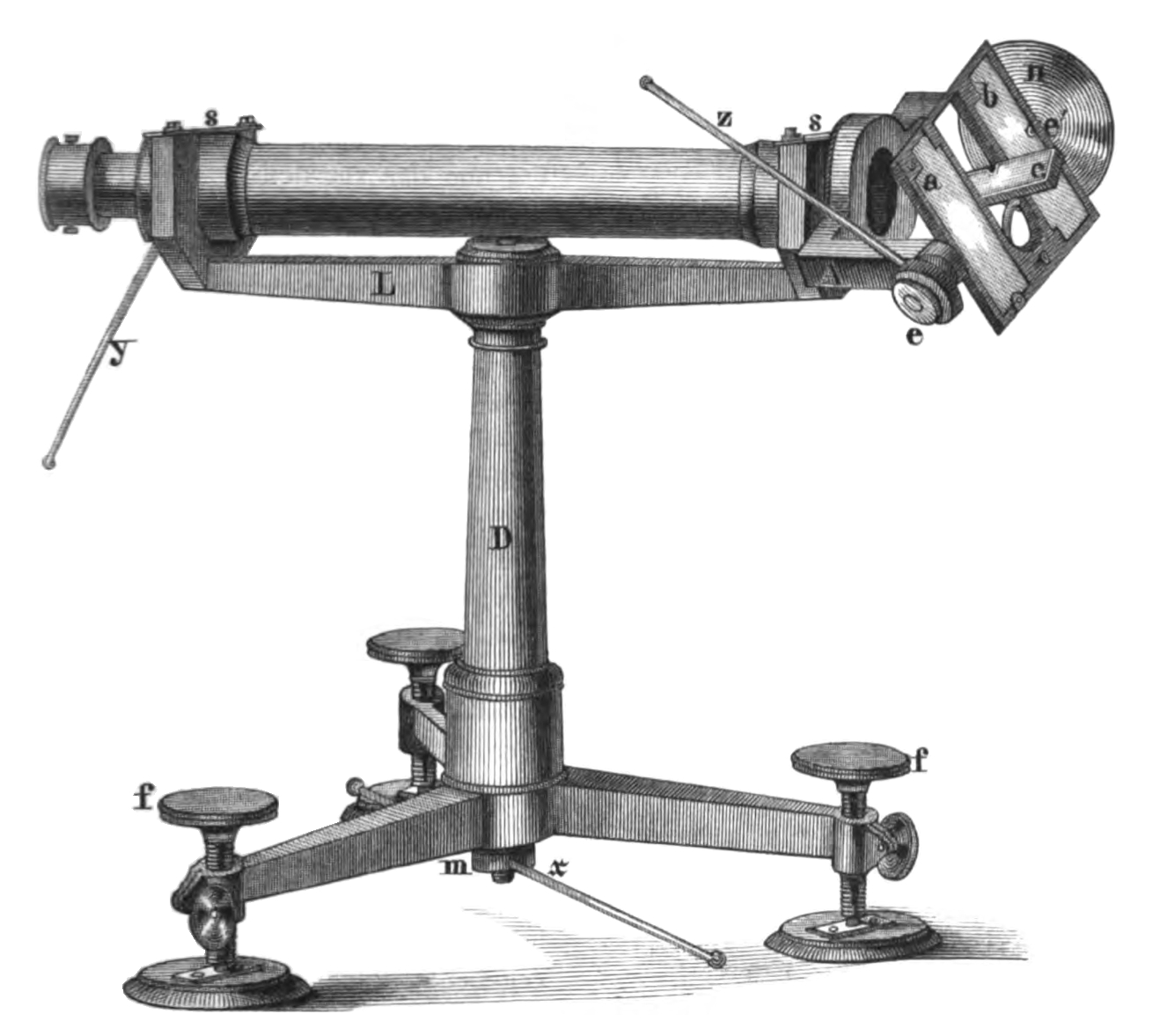 Diagram of heliotrope invented by Gauss.